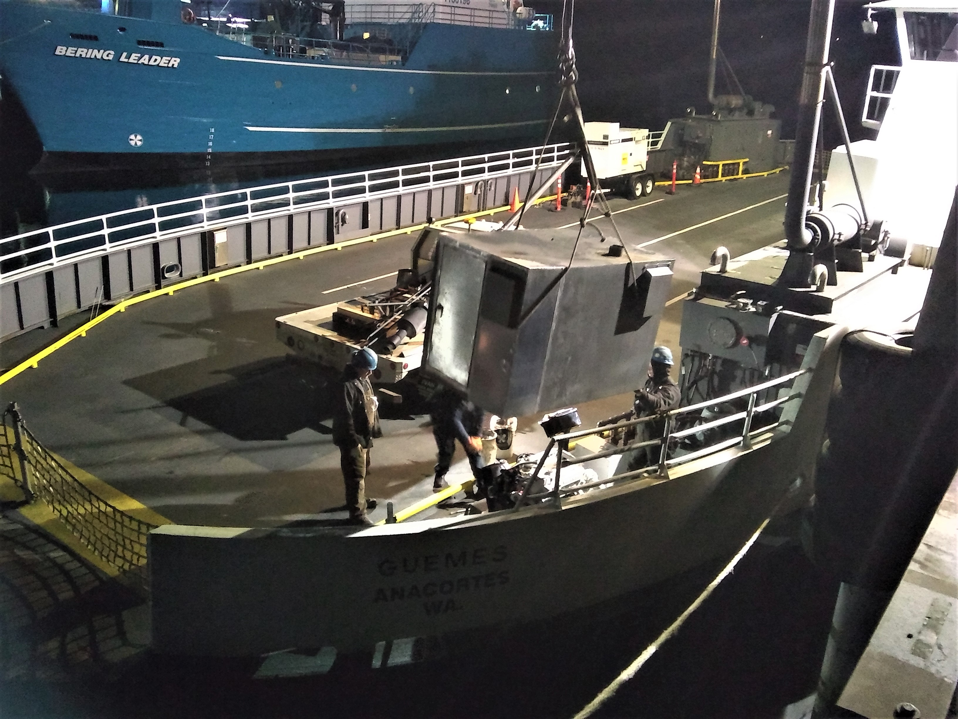 The M/V Guemes' generator was replaced in March 2020 at Dakota Creek Shipyard in Anacortes.